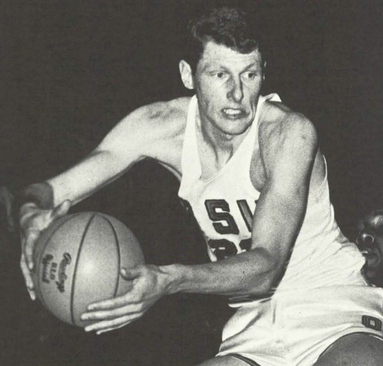 Oregon State University basketball player Mel Counts in 1963